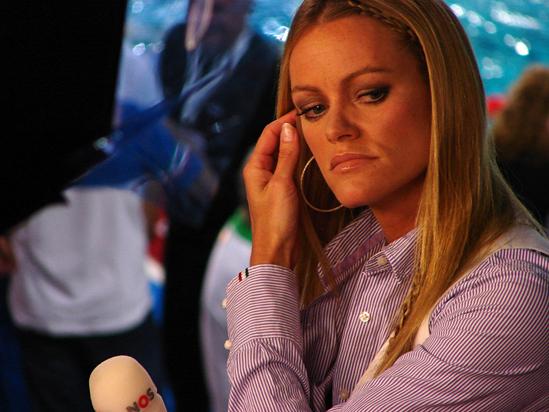 Inge de Bruijn providing TV commentary during the 2008 European championchips swimming in Eindhoven.